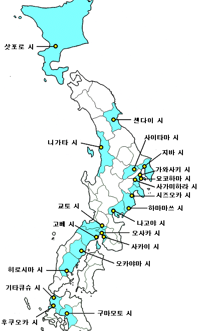 2013년 기준 지정정령도시 20곳